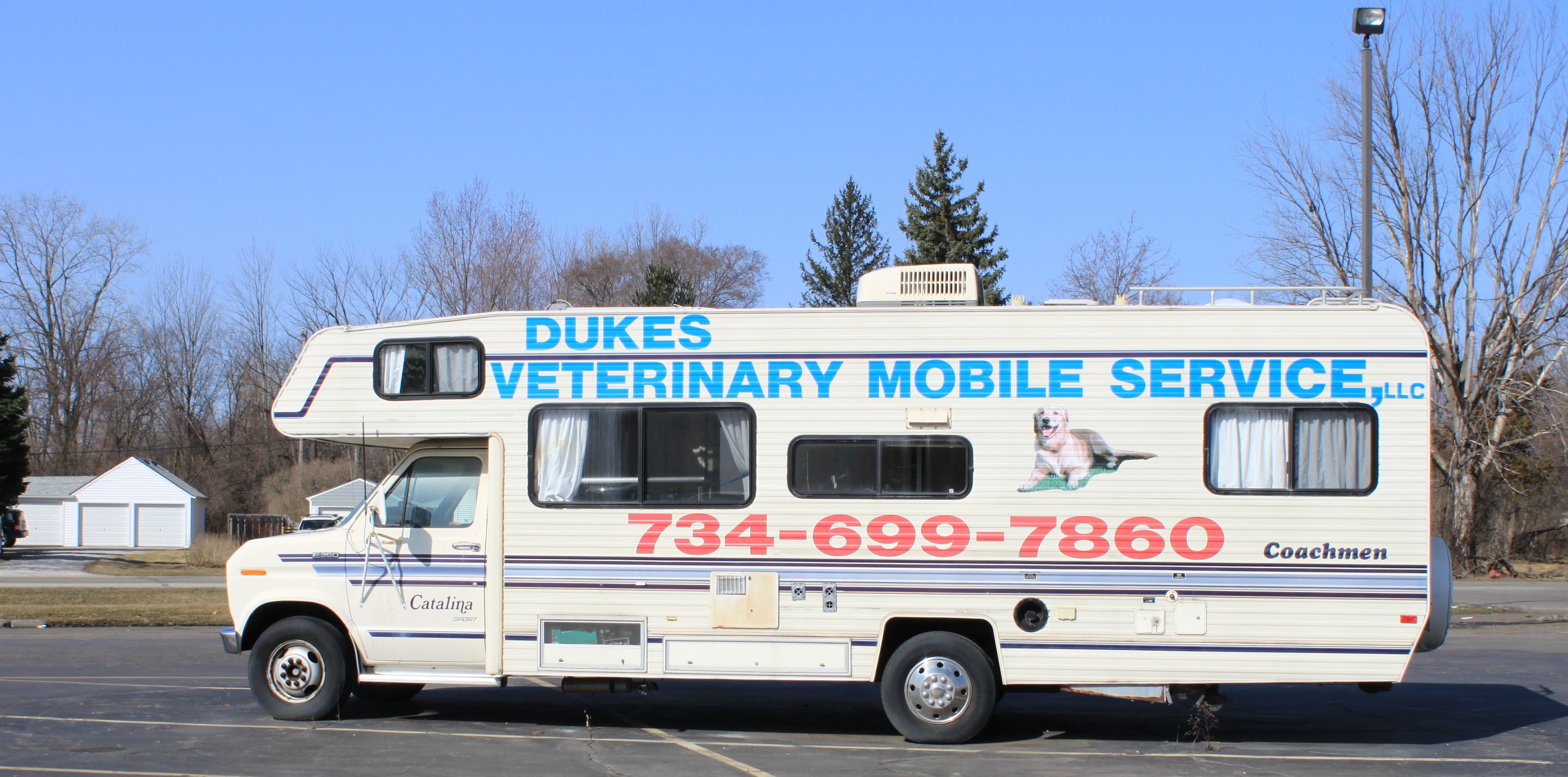 Dukes Veterinary Mobile Service van, Belleville, Michigan